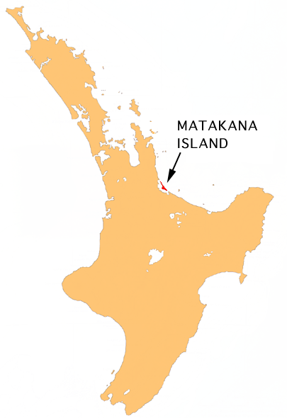 Location map of Matakana Island, New Zealand